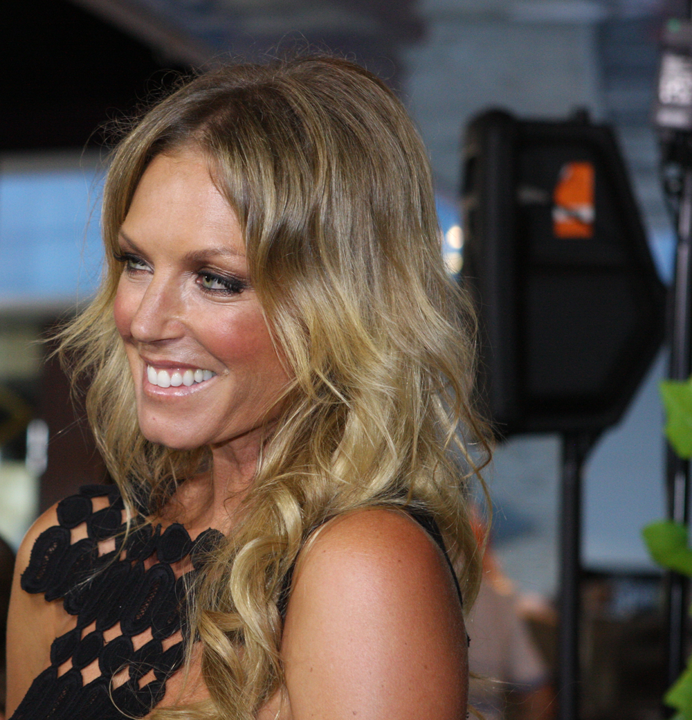 Australian actress and model Annalise Braakensiek at A Few Best Men movie premiere In Sydney, Australia, January 2012